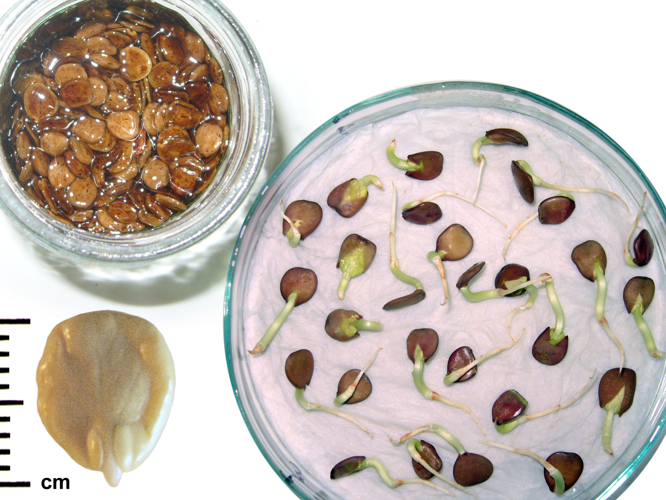 Caesalpinia embryo, H2SO4 treatment and germination (author: Mihailo Grbic)